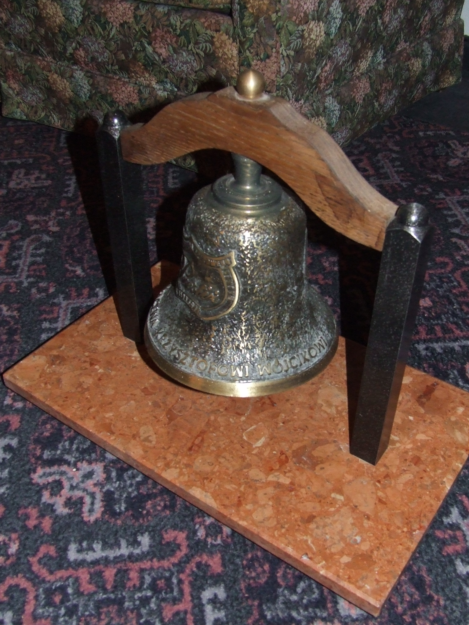 The palace in Paszkowka